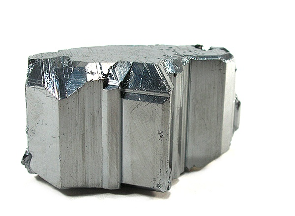 Bournonite Locality: Yaogangxian Mine, Yizhang County, Chenzhou Prefecture, Hunan Province, China (Locality at ) Size: miniature, 5 x 3 x 2.7 cm Bournonite This sharp miniature with cogwheel faces. 5 x 3 x 2.7 cm